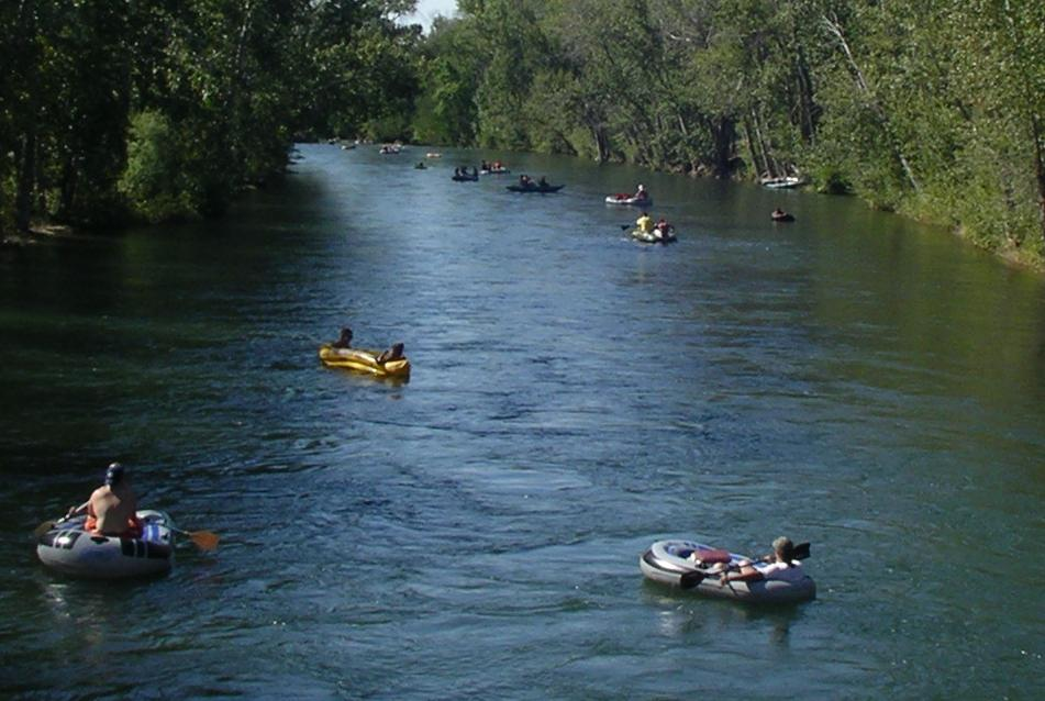 Recreational floaters on the Boise River, 8/12/2004. Photo taken about a mile from downtown, near Albertsons Headquarters.